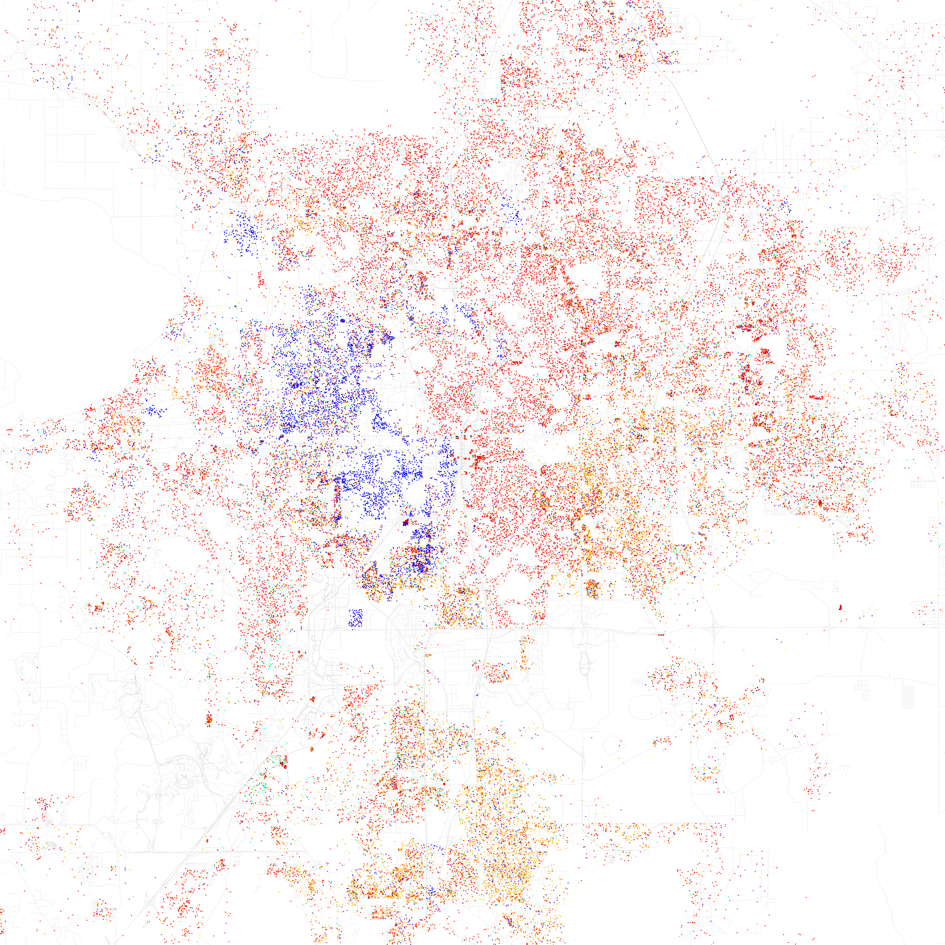 Maps of racial and ethnic divisions in US cities, inspired by Bill Rankin's map of Chicago, updated for Census 2010. Red is White, Blue is Black, Green is Asian, Orange is Hispanic, Yellow is Other, and each dot is 25 residents. Data from Census 2010. Base map © OpenStreetMap, CC-BY-SA